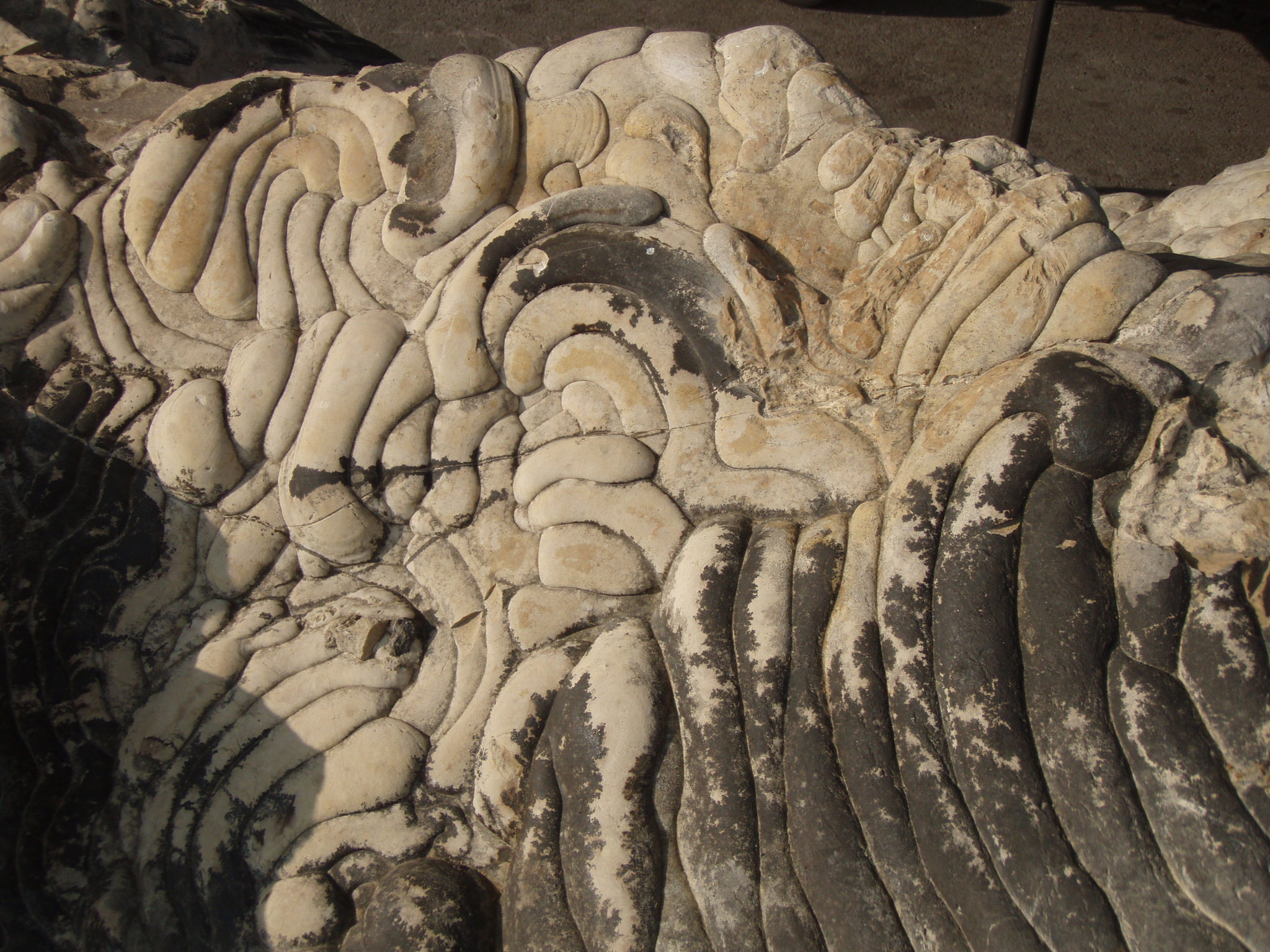 Mystery rock from Westerstetten (detail), exhibited at the entrance of Stuttgart Paleontological Museum, State Museum of Natural History